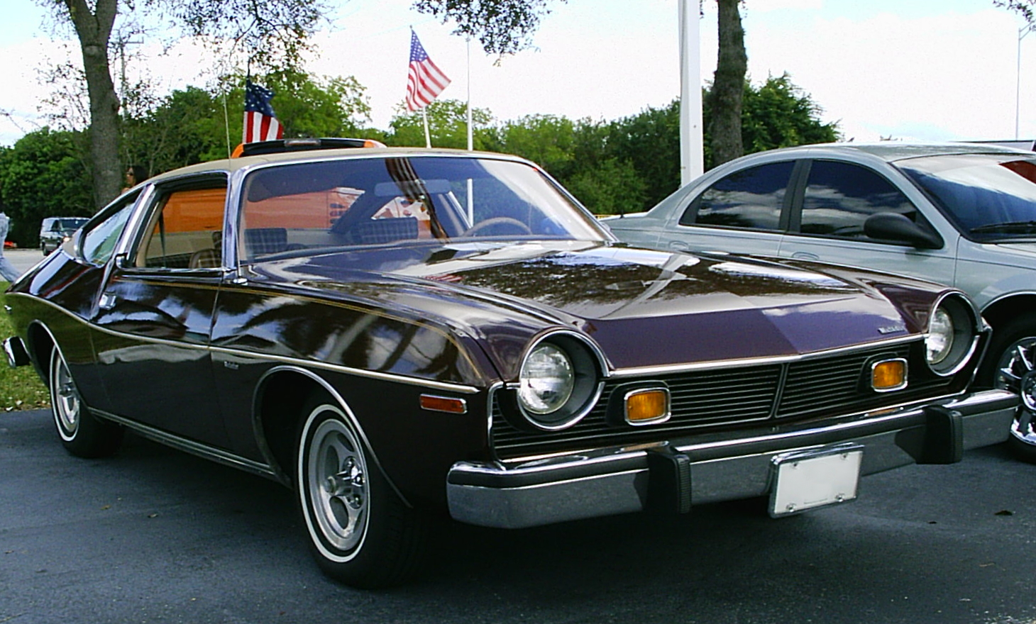 1976 AMC Matador Coupe - Brougham edition finished in Dark Cocoa Metallic (paint code: H4) with optional vinyl roof cover. Front right view.